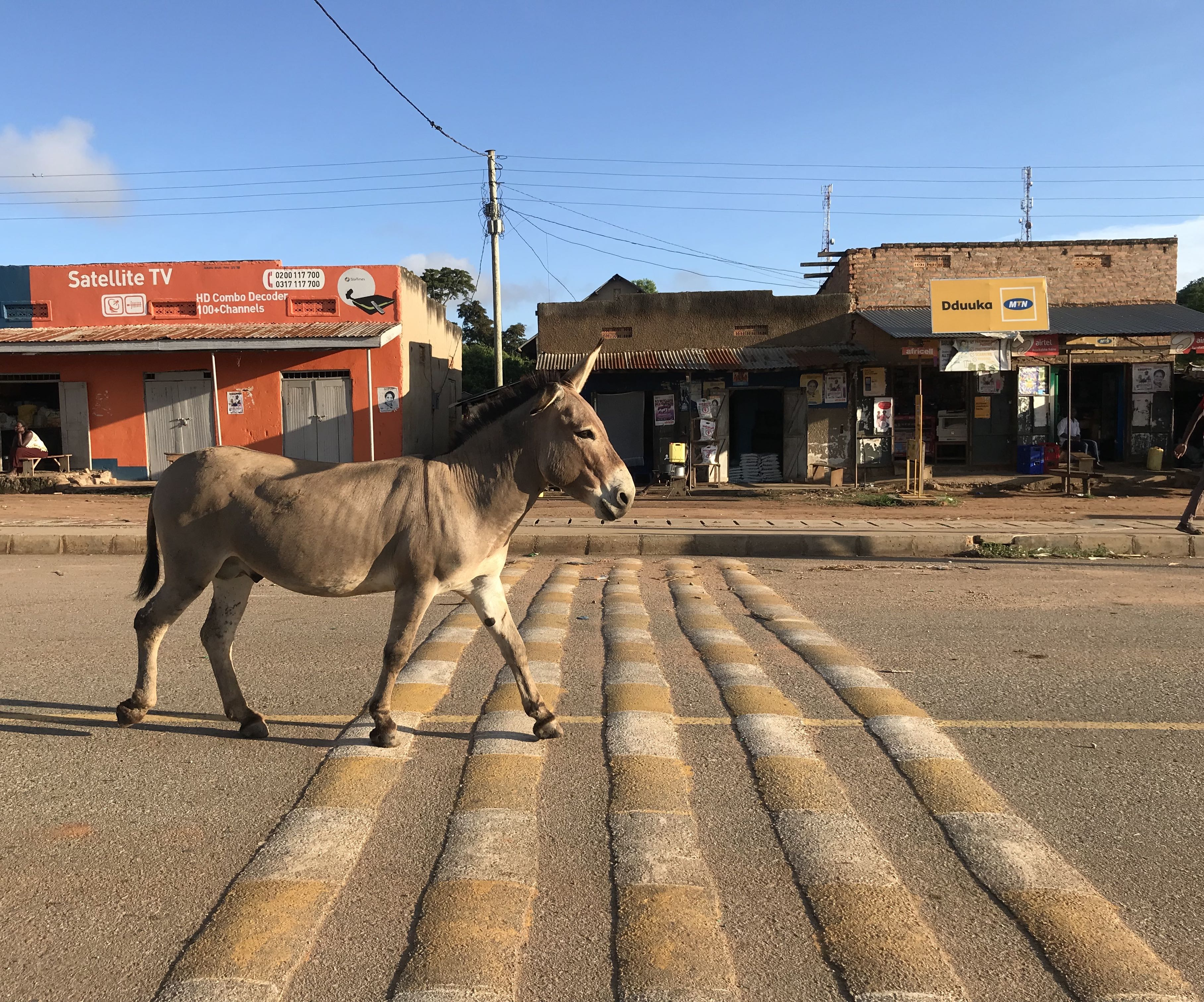 A donkey walks along one of the roads in hoima, Uganda This is an image with the theme "Africa on the Move or Transport" from: Uganda